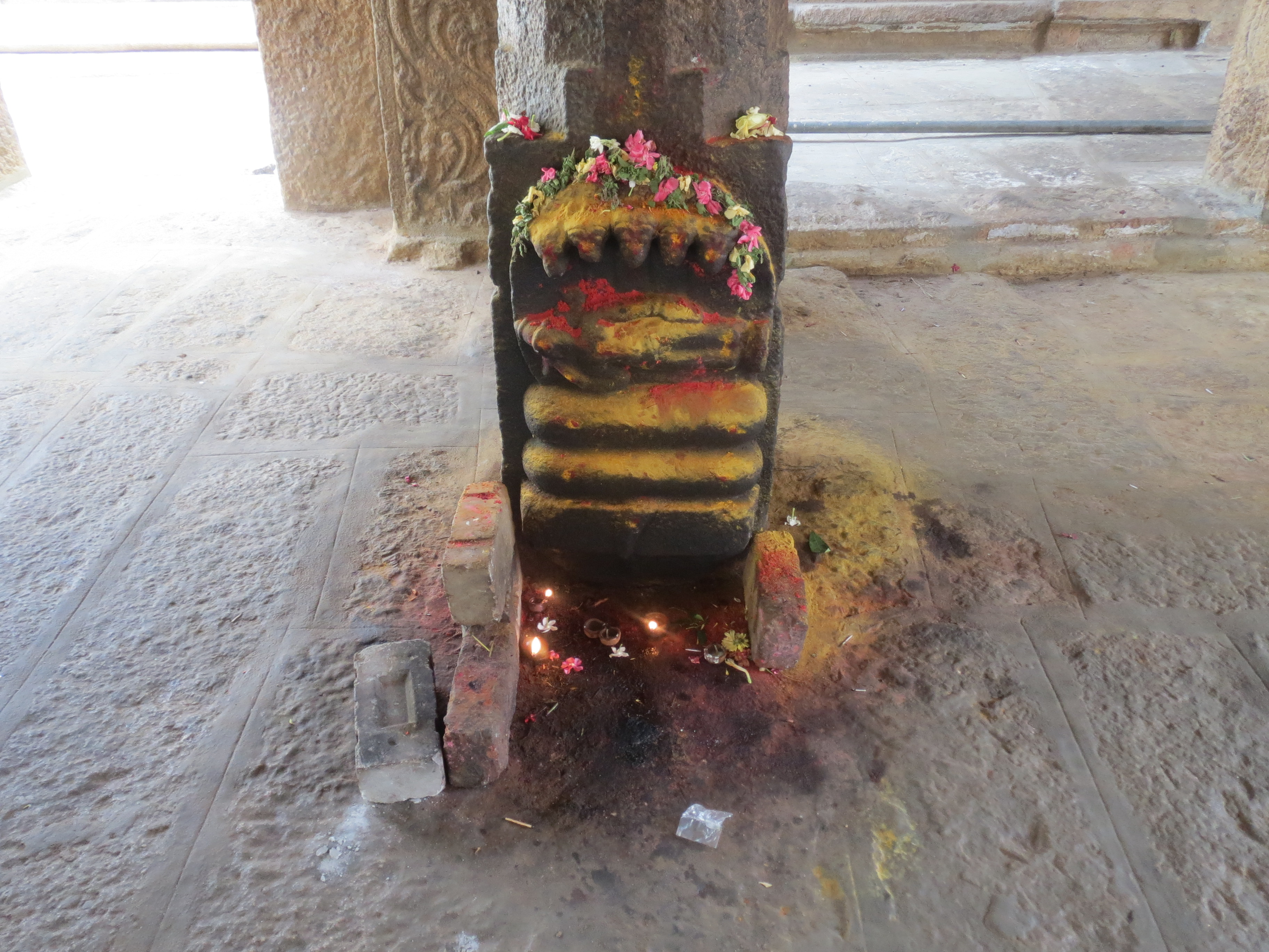 Thiruchengodu Kailasanathar Temple- Pallikoda Perumal carved in a stone pillar at the Subramaniar sannidhi.